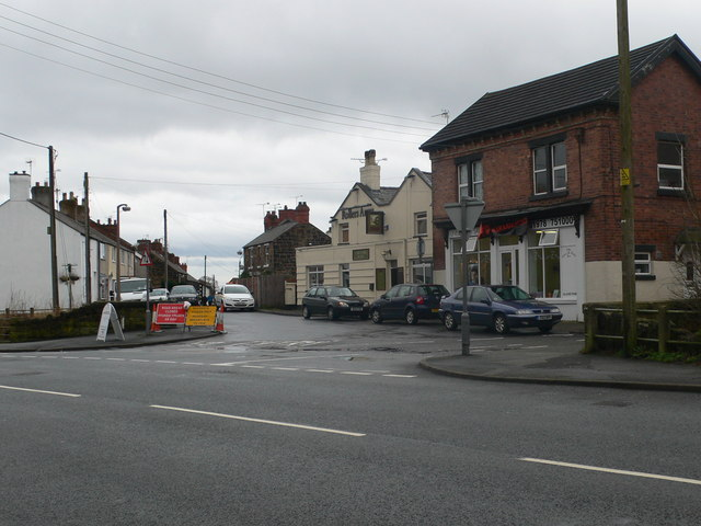 Southsea near Wrexham Southsea is a small formerly industrial village on the Gwenfro river. It came into being at the site of the Broughton Hall Brickworks and the Plas Power Colliery. Its exotic English name comes from the South Sea Inn which used to stand over the road from the Brickworks (and in a room of which the Brickworks pay was distributed).